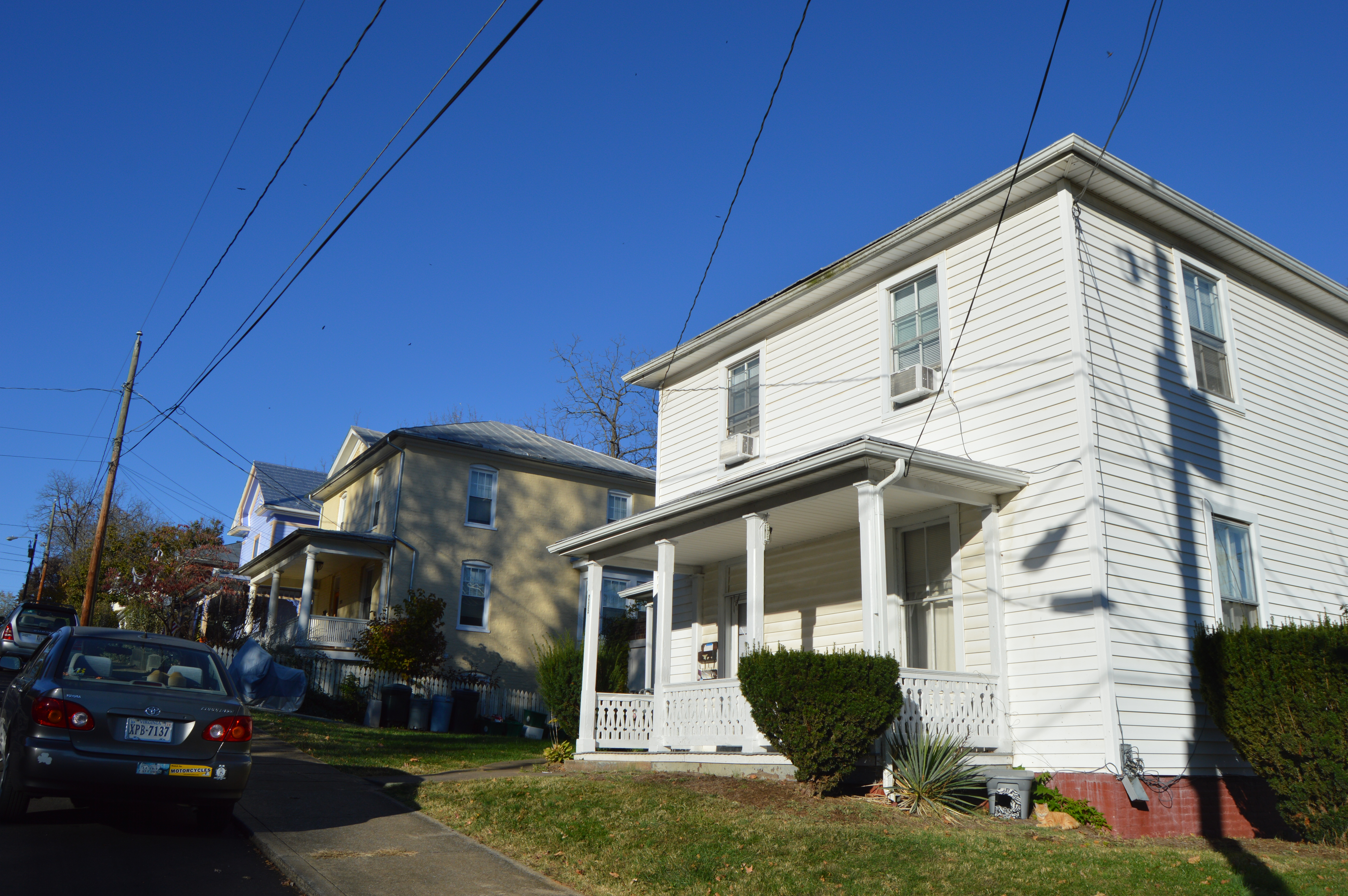 Houses on the eastern side of Jefferson Street, just north of the Baldwin Street intersection, in Staunton, Virginia, United States. This block is part of the Newtown Historic District, a historic district that is listed on the National Register of Historic Places.